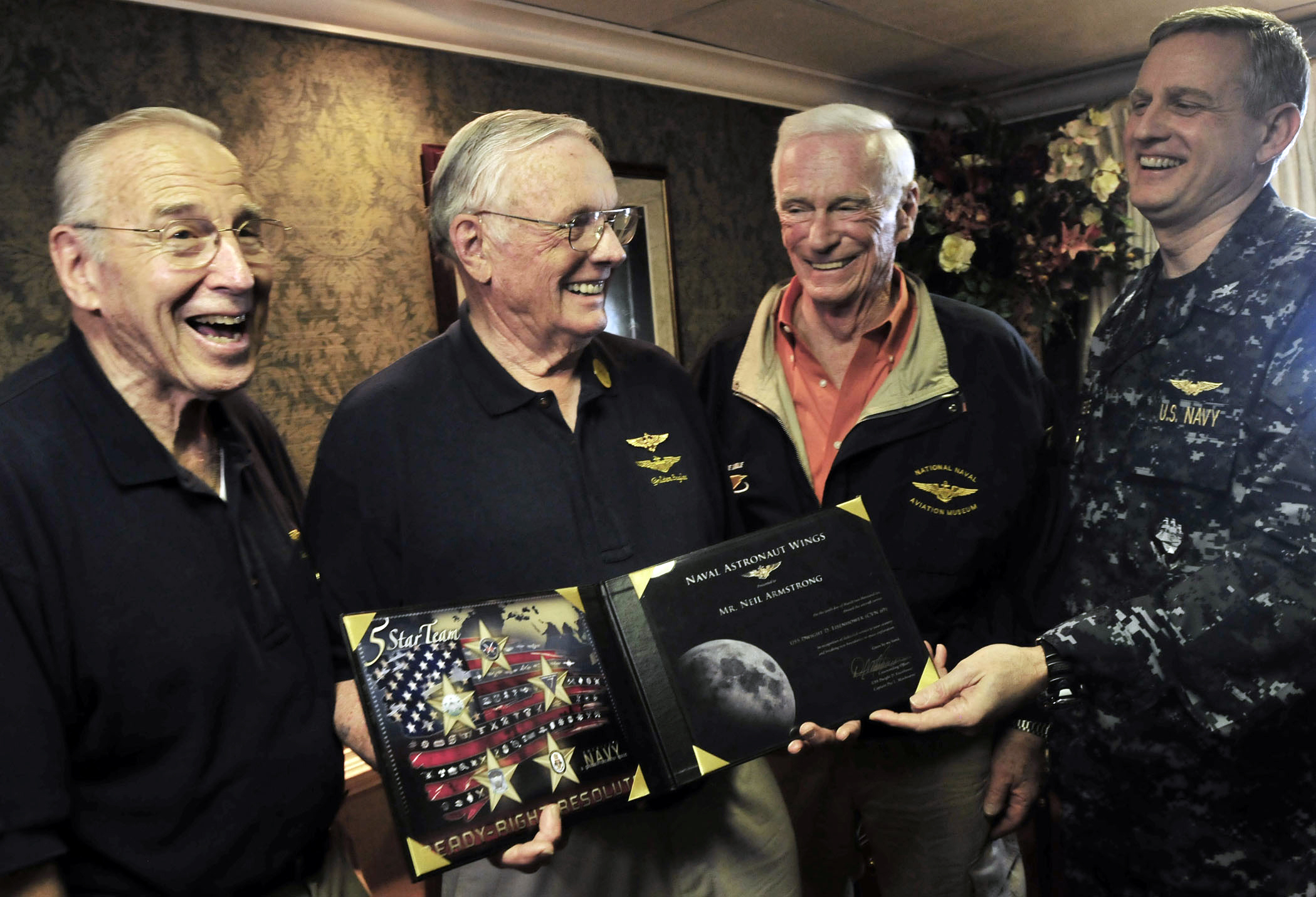 NORTH ARABIAN SEA (March 10, 2010) Astronaut legend Neil Armstrong is presented with honorary Naval Astronaut Wings by Capt. Dee L. Mewbourne, commanding officer of the aircraft carrier USS Dwight D. Eisenhower (CVN 69) during a two-day visit as part of the Legends of Aerospace Tour sponsored by Morale Entertainment. Armstrong was joined by fellow astronauts Jim Lovell and Gene Cernan during the presentation aboard the ship. Dwight D. Eisenhower is on a six-month deployment as part of the on-going rotation of forward-deployed forces to support maritime security operations. (U.S. Navy photo by Mass Communication Specialist 2nd Class Gina K. Wollman/Released)